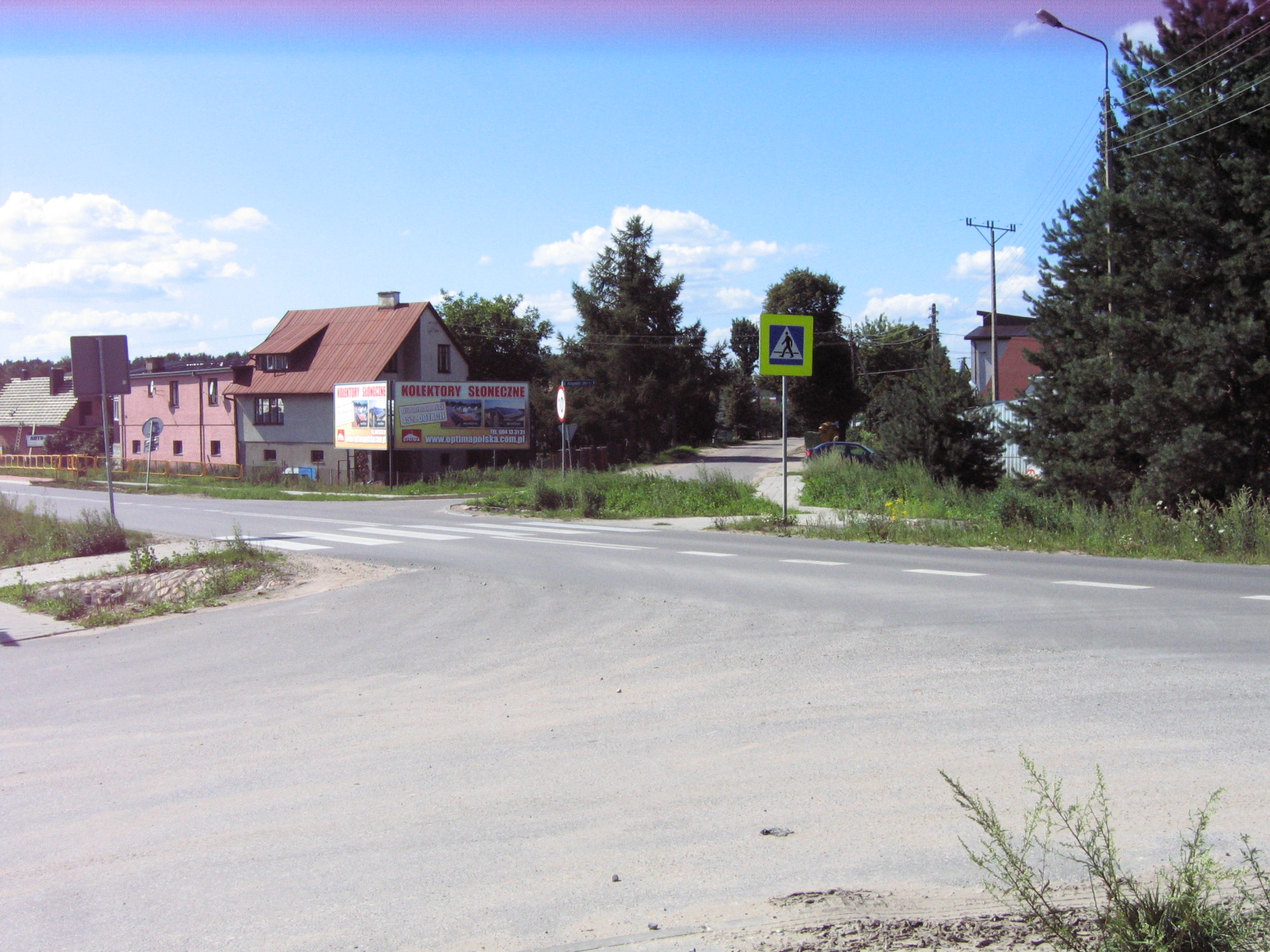 Krupniki